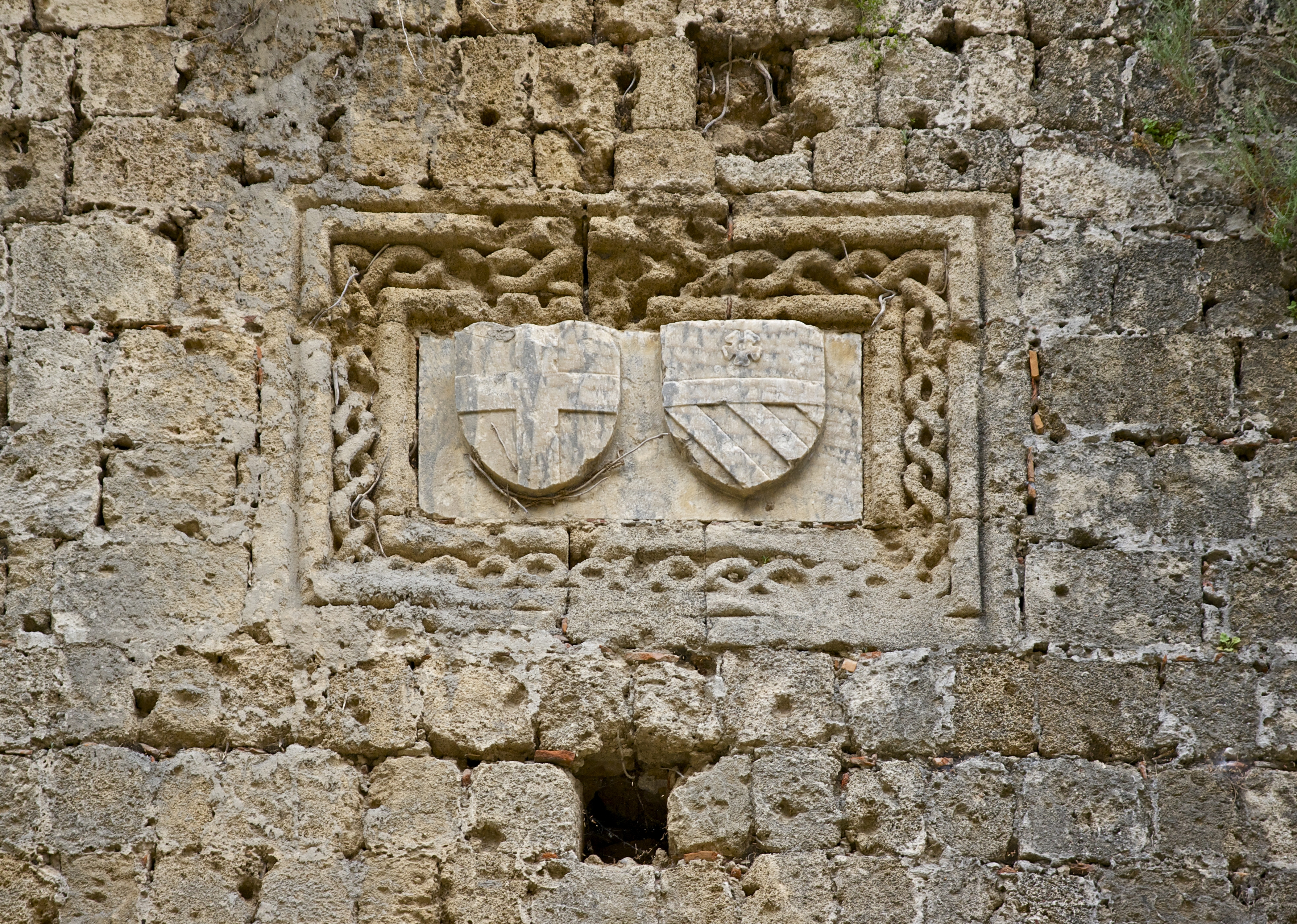 at right, relief of coat of arms of Giovanni Battista ORSINI, 39th Grand Master of the order of the Knights of Saint John of Jerusalem ("Knights of Rhodes"), elected 4th march 1467-dead 8 june 1476. Walls of the medieval city of Rhodes, Greece.